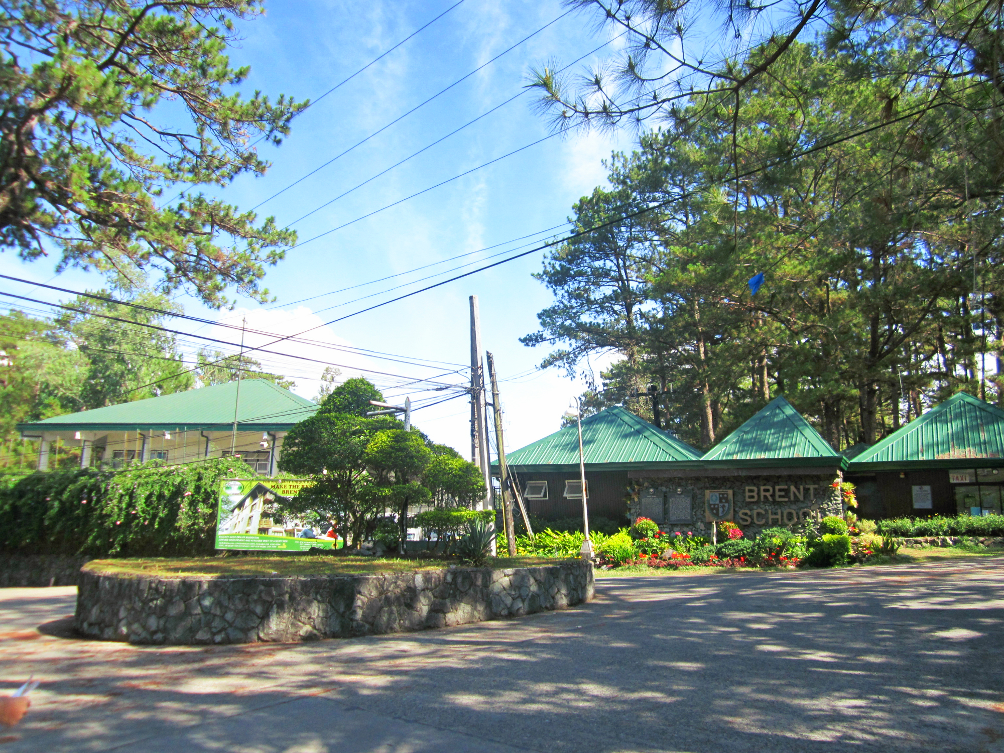 Brent International school in Baguio City.